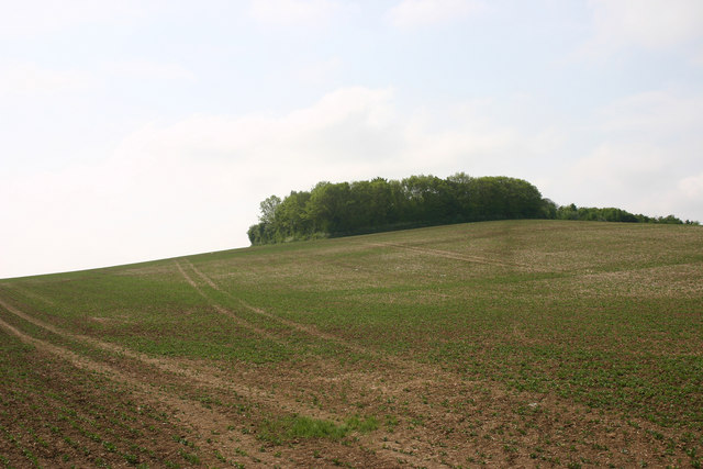 Hilltop near Ashingdon. St. Andrews church stands just beyond the trees.